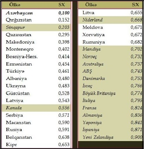 Social Expenditures sub-index